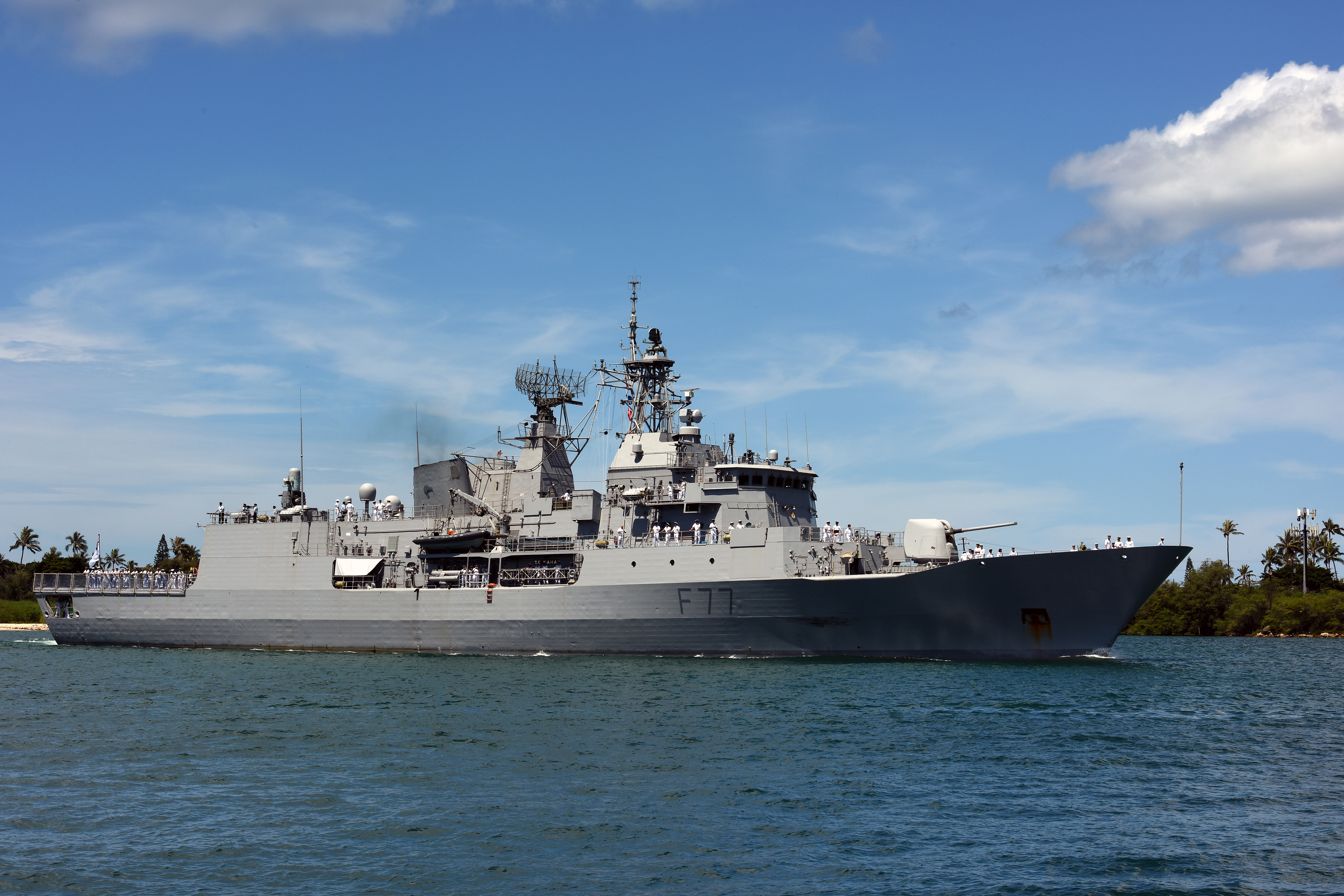 160628-N-QL961-058 PEARL HARBOR (June 28, 2016) Royal New Zealand Navy ship HMNZS Te Kaha (FFH 155) arrives at Joint Base Pearl Harbor-Hickam for Rim of the Pacific 2016. Twenty-six nations, more than 40 ships and submarines, more than 200 aircraft and 25,000 personnel are participating in RIMPAC from June 30 to Aug. 4, in and around the Hawaiian Islands and Southern California. The world's largest international maritime exercise, RIMPAC provides a unique training opportunity that helps participants foster and sustain the cooperative relationships that are critical to ensuring the safety of sea lanes and security on the world's oceans. RIMPAC 2016 is the 25th exercise in the series that began in 1971. (U.S. Navy Photo By Mass Communication Specialist 1st Class Phillip Pavlovich/RELEASED)